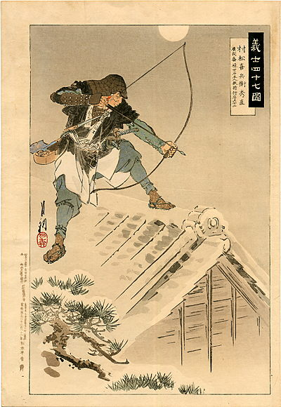 Ronin are masterless samurai. Chushingura is the true story of 47 samurai who became masterless in 1701, after their lord had been forced to commit ritual suicide (seppuku) for assaulting a court official who had insulted him. They avenged him by killing the court official after patiently planning for over a year. They were themselves then forced to commit seppuku.